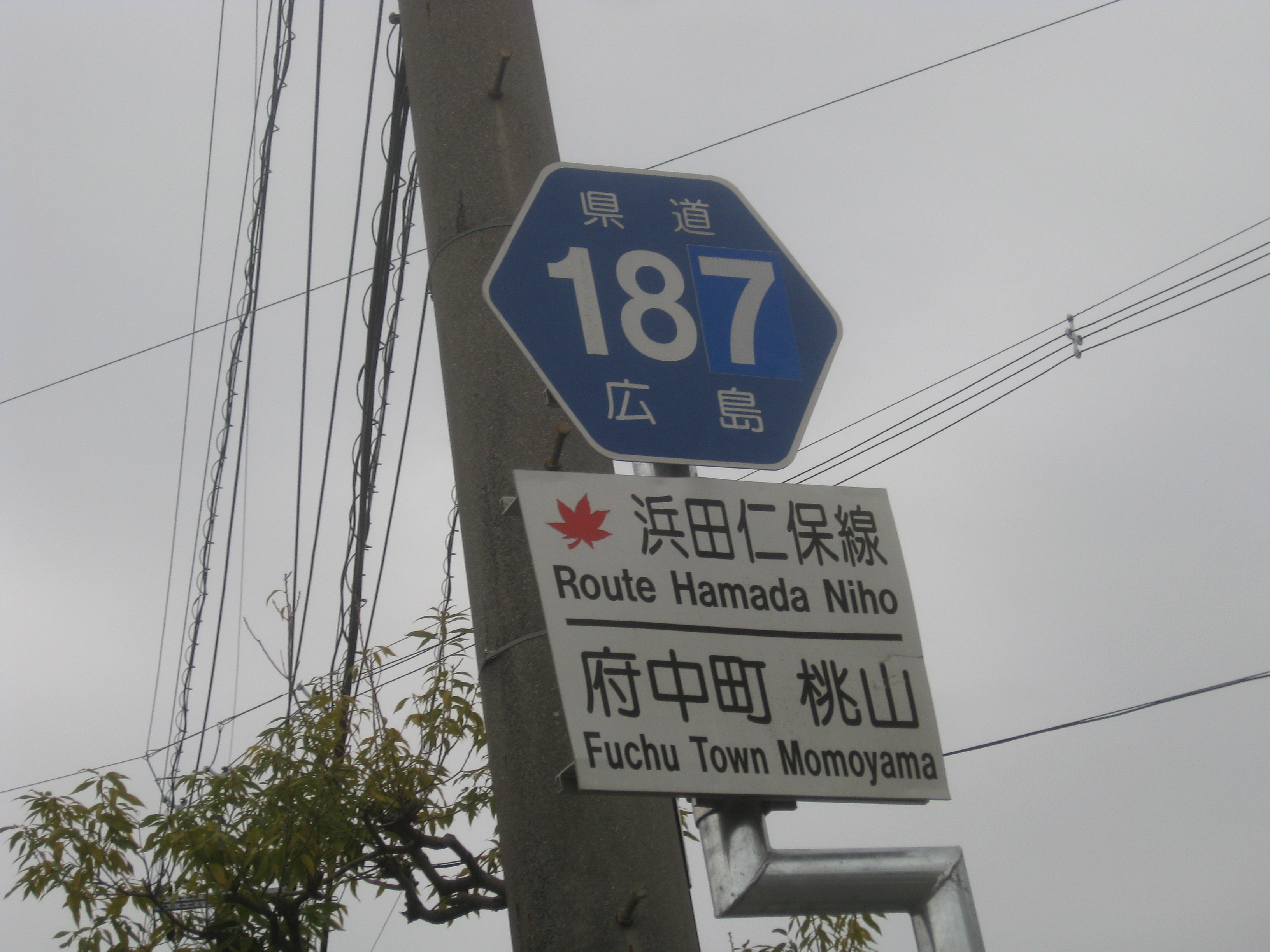 Traffic sign of Hiroshima Prefecture Road No.187 at Momoyama, Fuchu Town